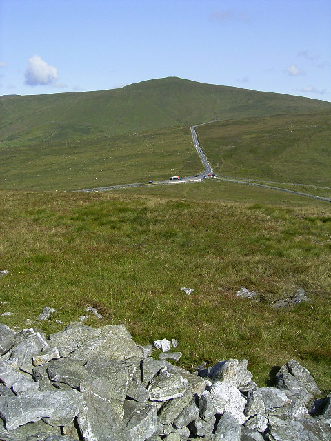 Windy Corner, Isle of Man, on the mountain section of the TT motorcycle course. Taken from the top of Cairn Gerjoil looking north-west towards Beinn-y-Phott mountain.